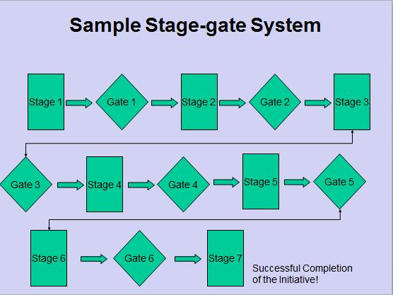 part of opportunity management process- Newfoundland and Labrador Regional Economic Development Association